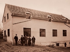 LOWA factory